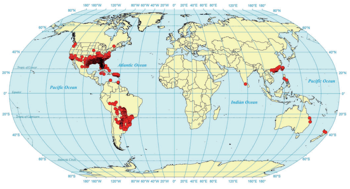 Worldwide distribution records of Solenopsis invicta. Records in India and the Philippines need further confirmation.